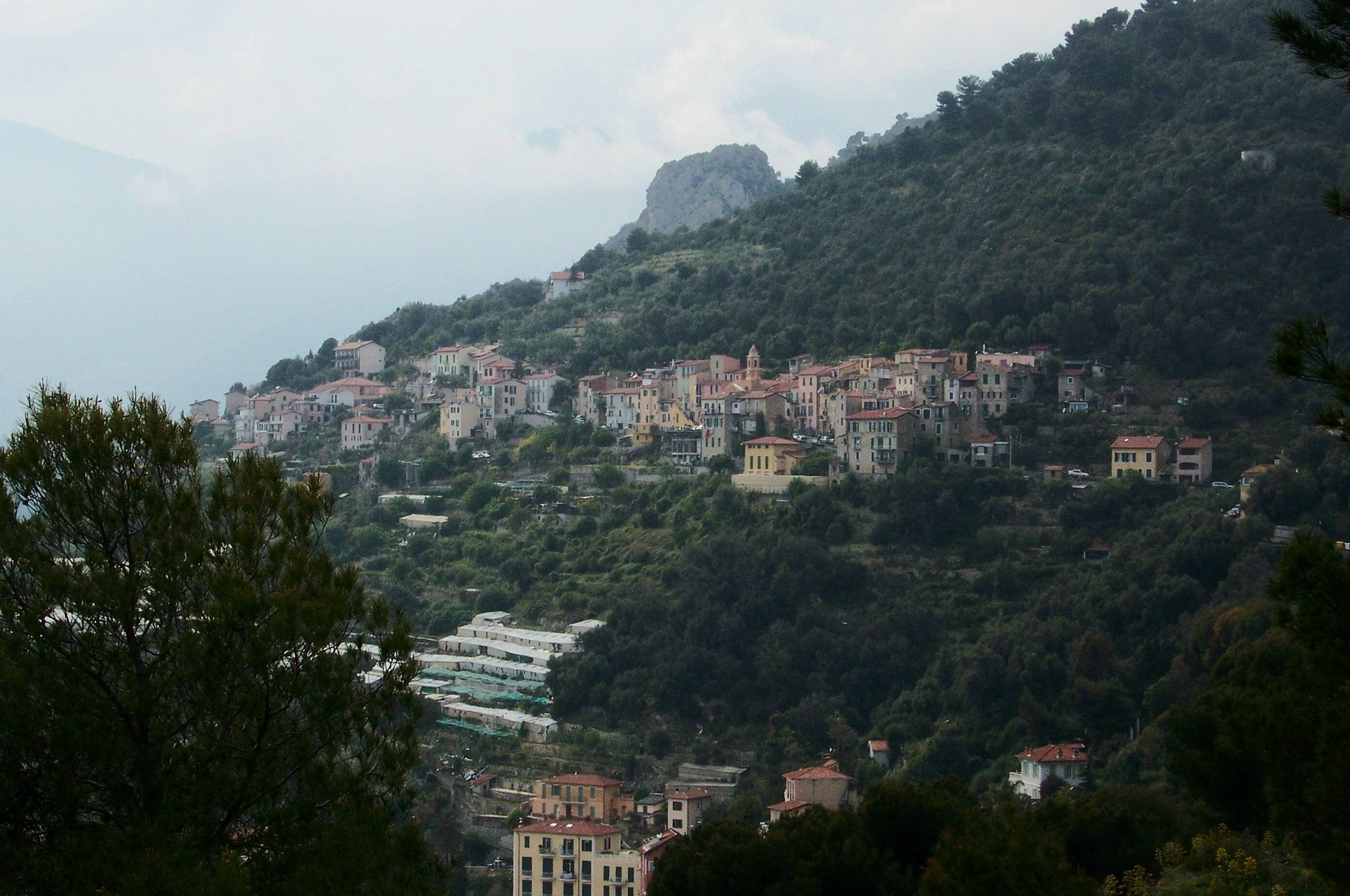 Hamlet of Grimaldi Superiore, last hamlet before the French border from Ventimiglia